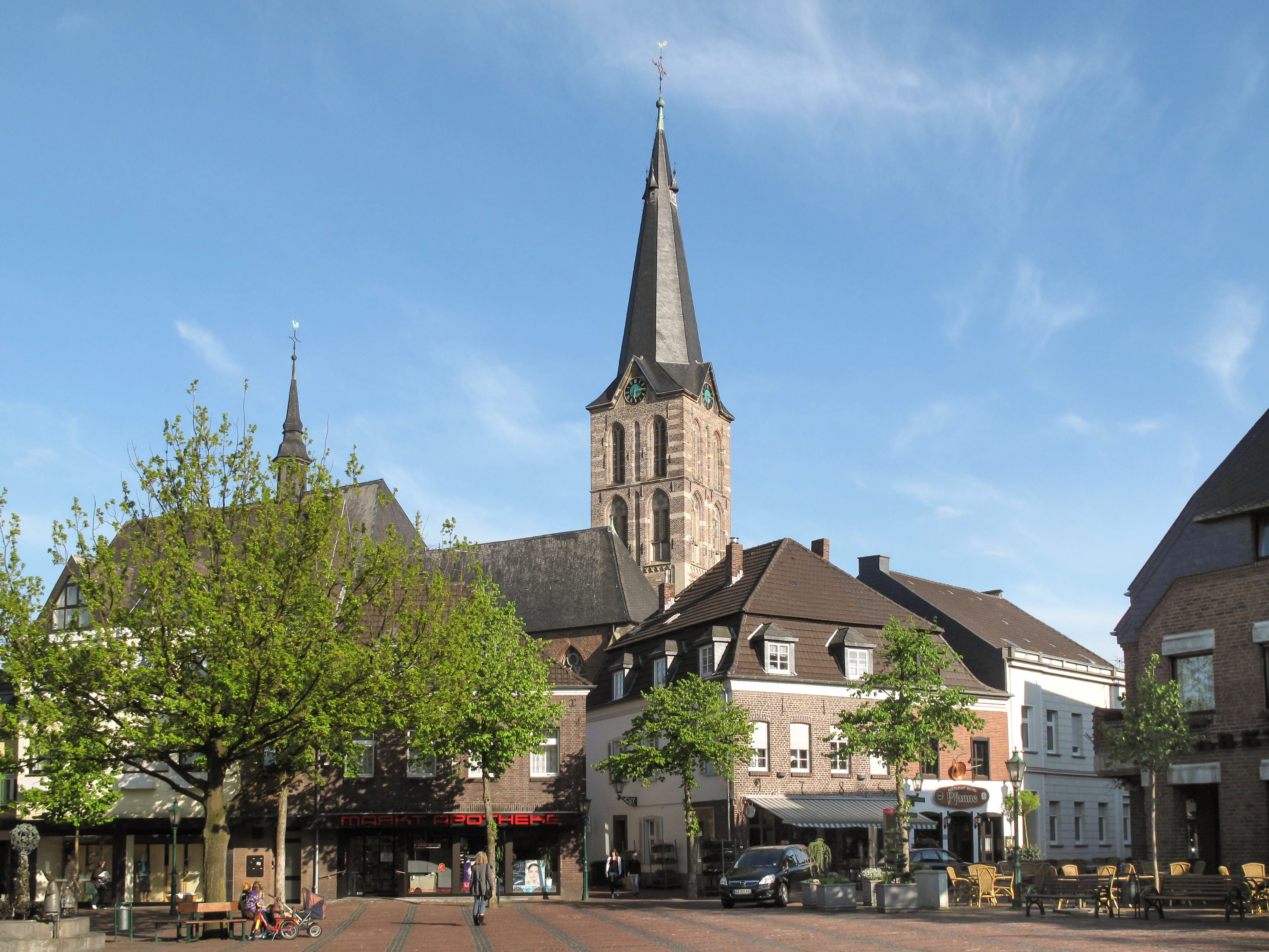 Straelen, church